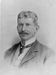 Sir Lepel Henry Griffin (1838-1908), an administrator and historian of the British Raj.